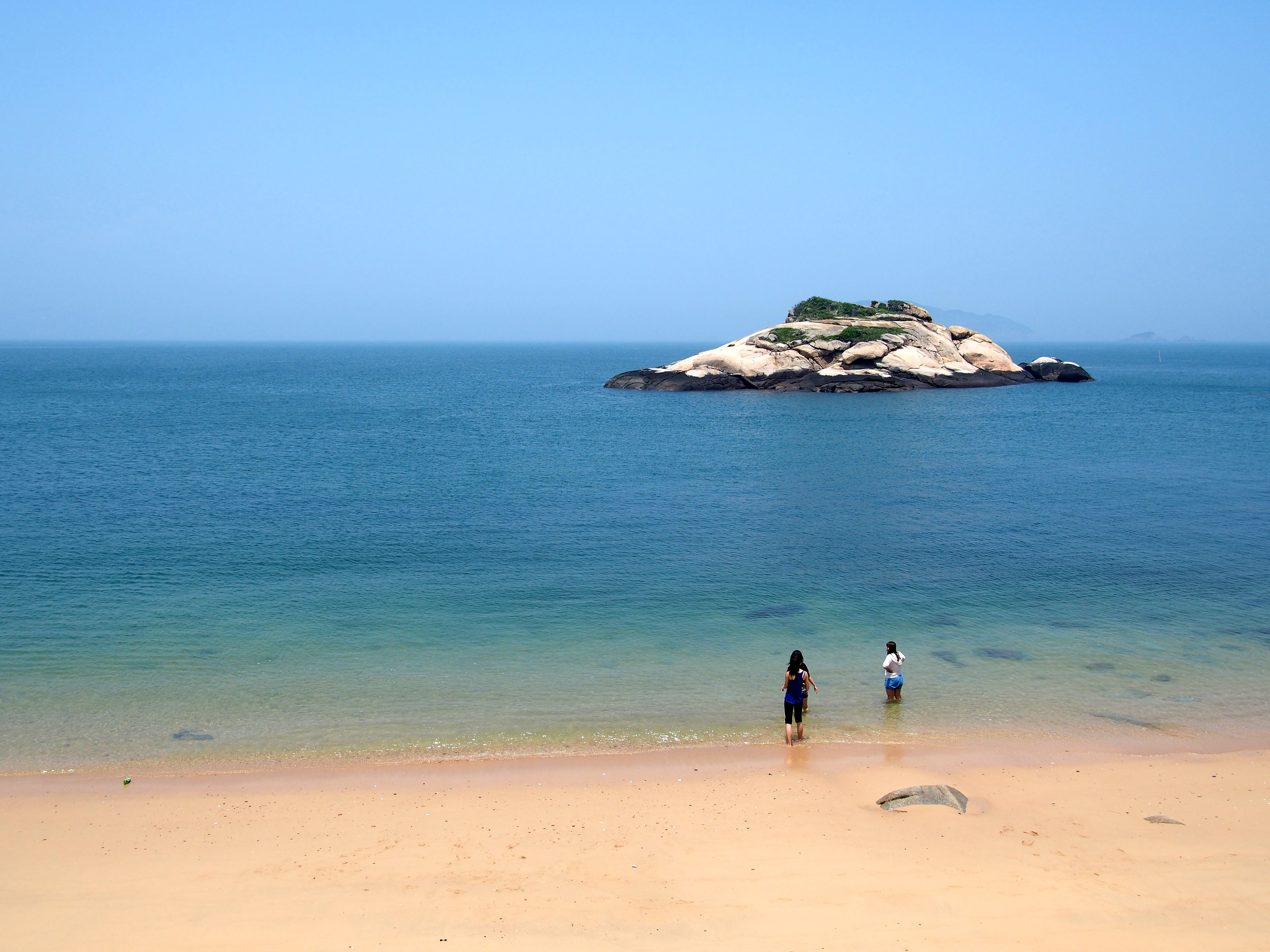 Turtle Islet - 2015.05